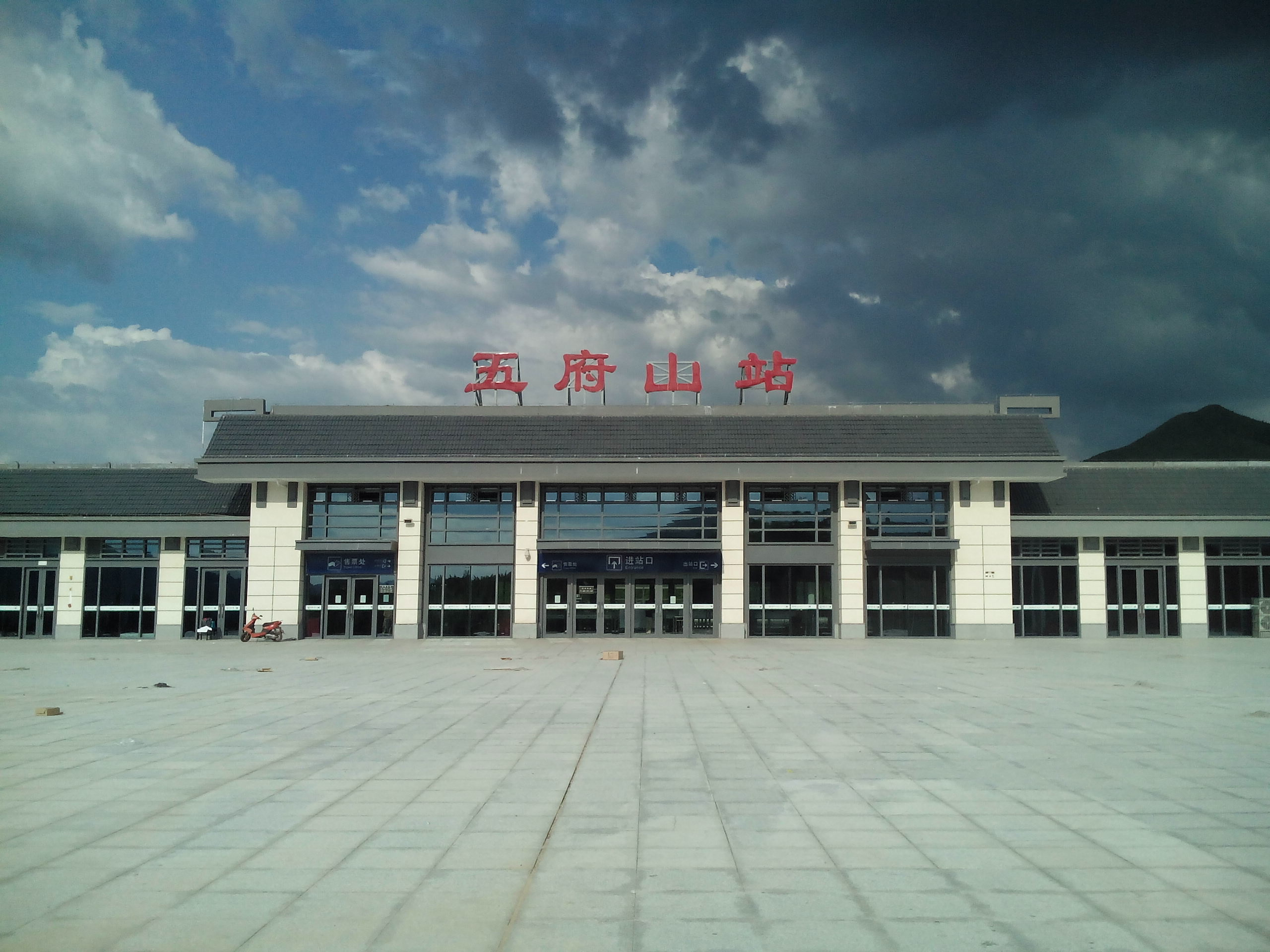 Facade of Wufushan Railway Station